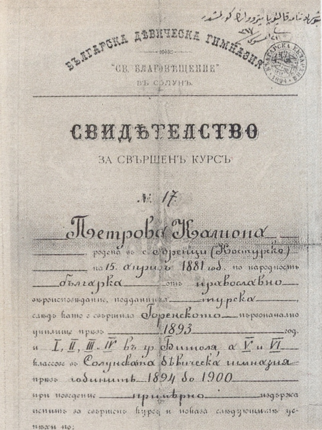 Graduation diploma issued by the "Holy Annunciation" Bulgarian Girls' School of Solun (Thessaloniki). Issued on June 11, 1900 (page 1)